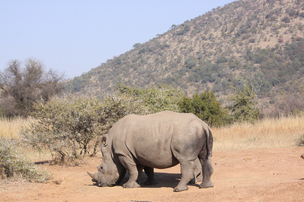 White Rhino in Pilanesberg National Park